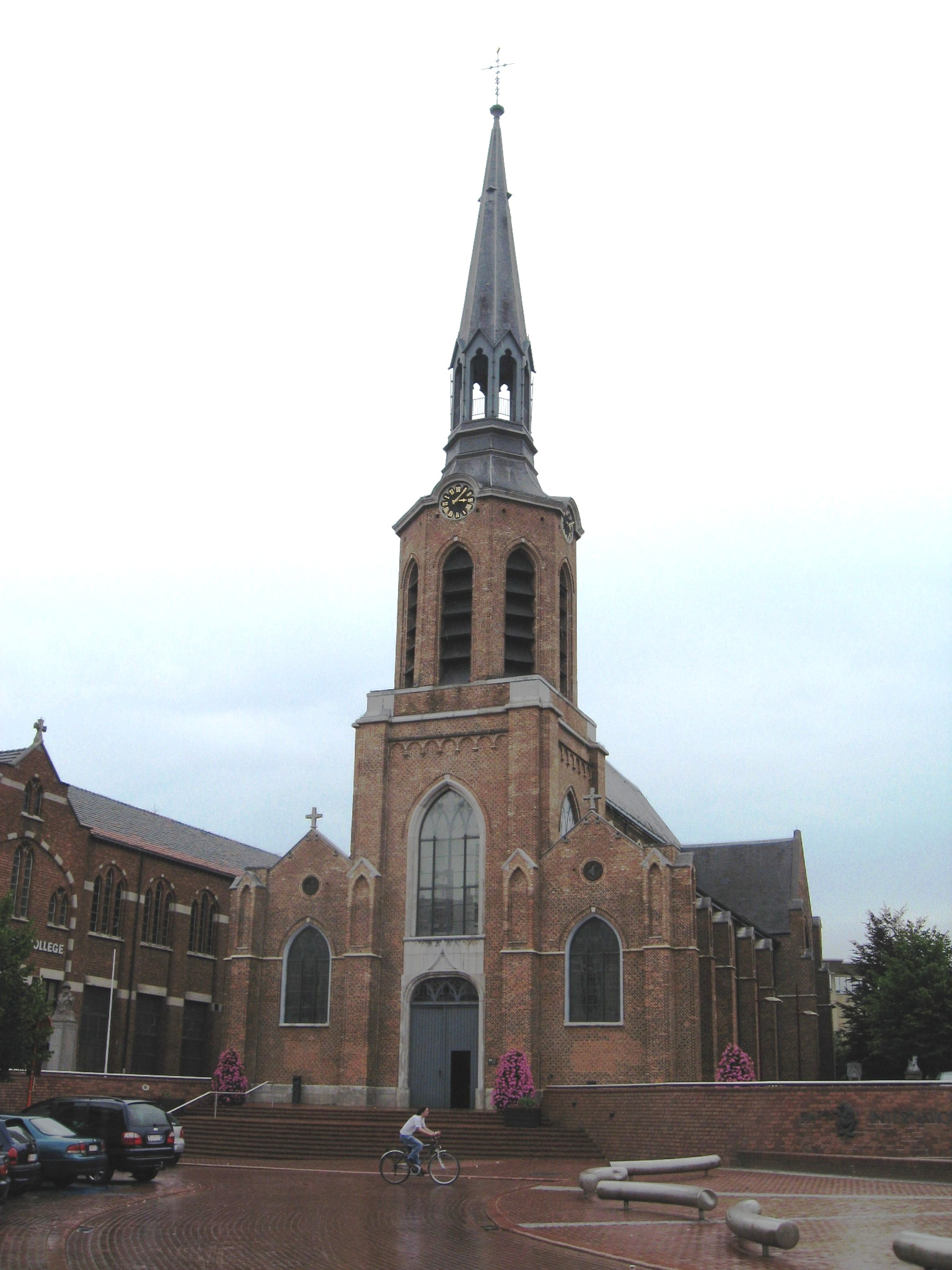 Church of Saint Peter in Chains in Beringen, Limburg, Belgium